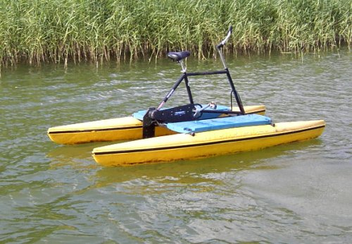 A "Hydrobike" on a lake in Brandenburg, Germany.